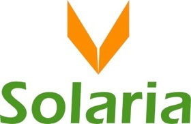 Solaria Energía y Medio Ambiente logo